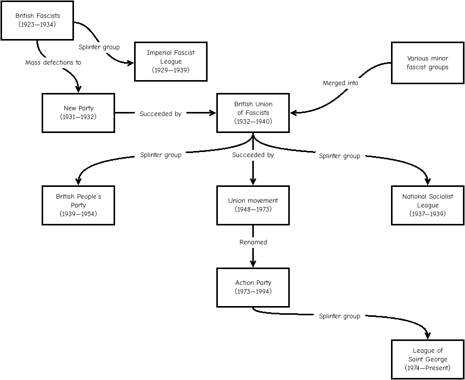 A flowchart documenting the history of the early British fascist movement